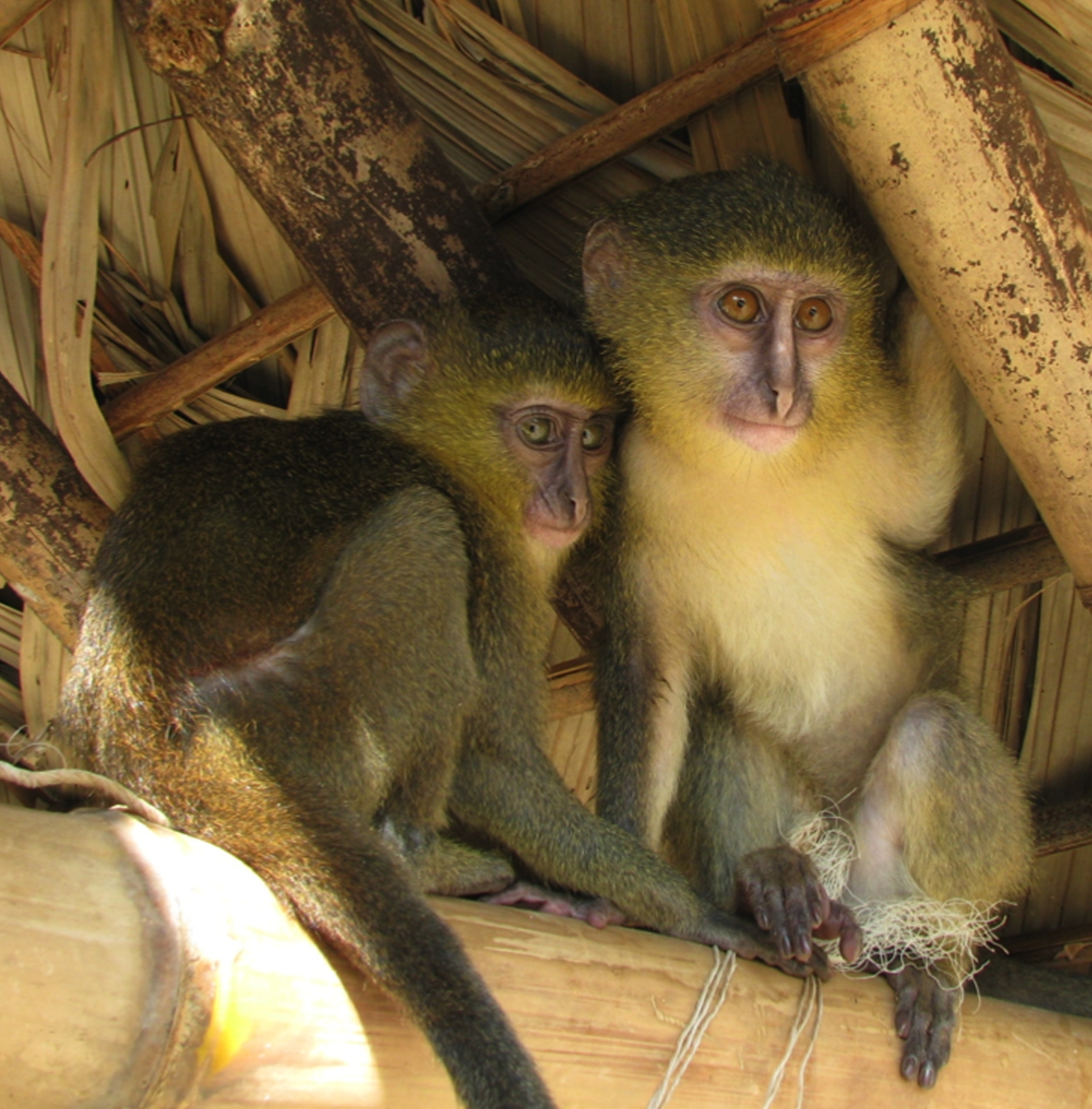 Juvenile Cercopithecus lomamiensis